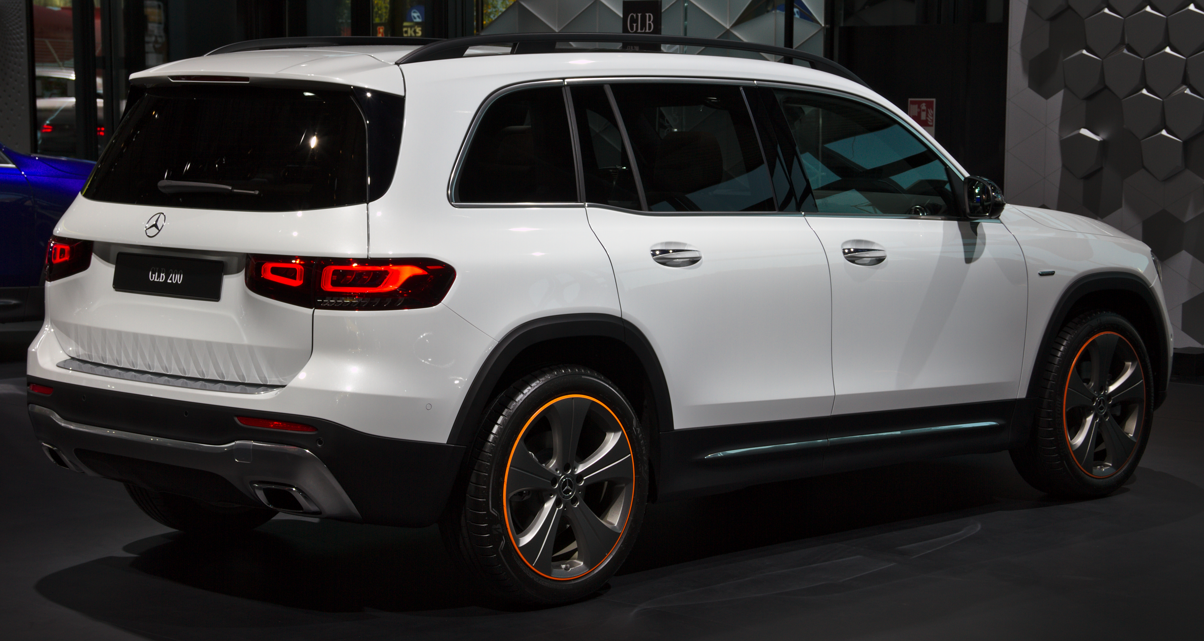 Mercedes-Benz_X247 at IAA 2019